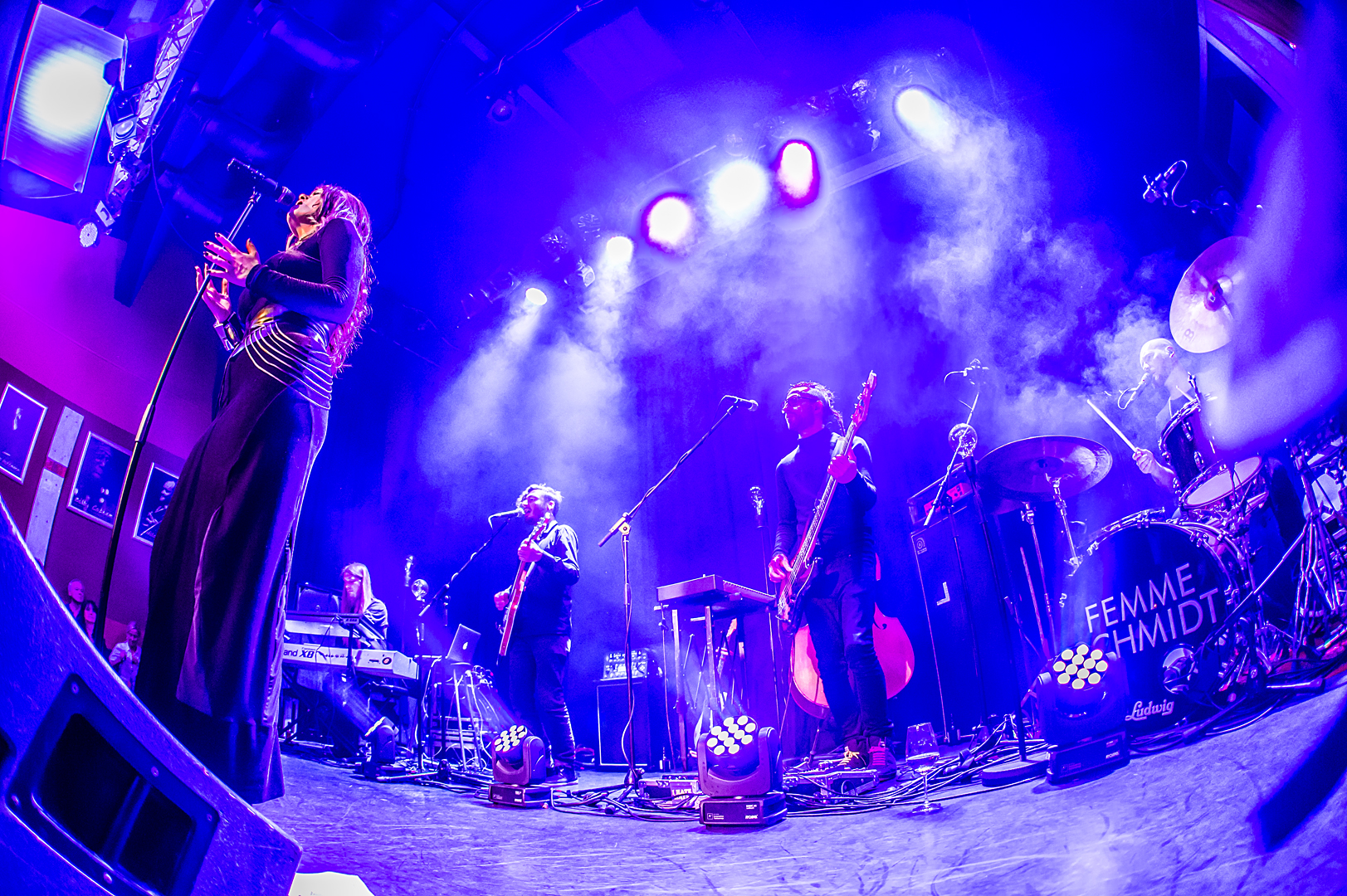 Femme Schmidt, singer/songwriter from Germany, concert 2016 at the Café Hahn club at Coblenz, Rhineland-Palatinate, Germany